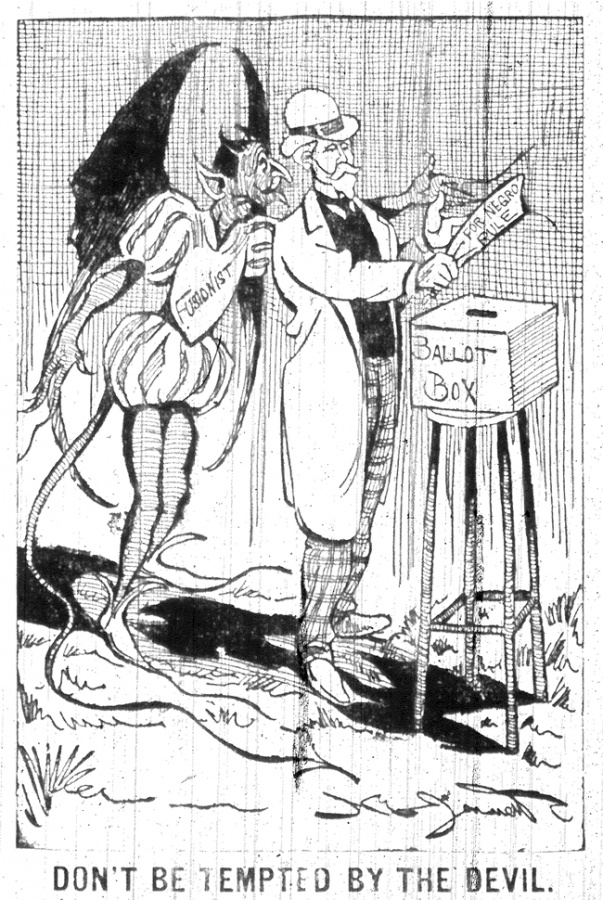 “Don’t Be Tempted By The Devil.” "News and Observer." Oct. 26, 1898. Illustration by Norman Jennett.